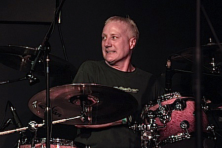 Greg Bissnette - Live in Concert (photo by Scott Dudelson)